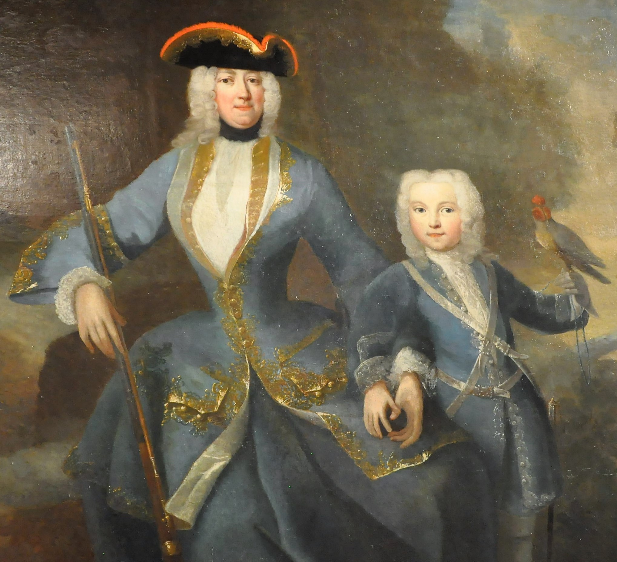 Eleonore of Schwarzenberg (born of Lobkowicz) and her son Joseph. 18th century. From Český Krumlov.